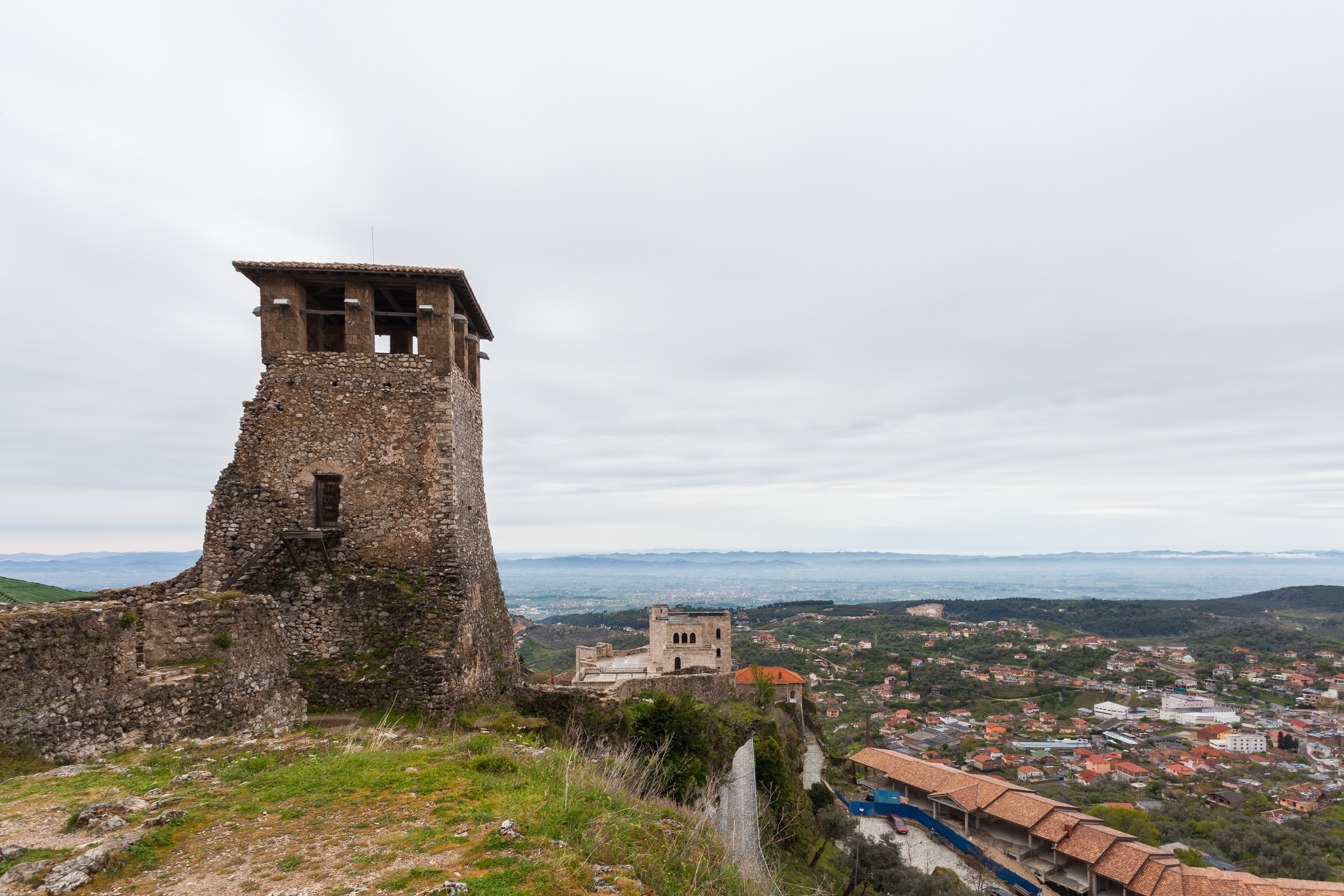 Kruja Castle, Kruja, Albania